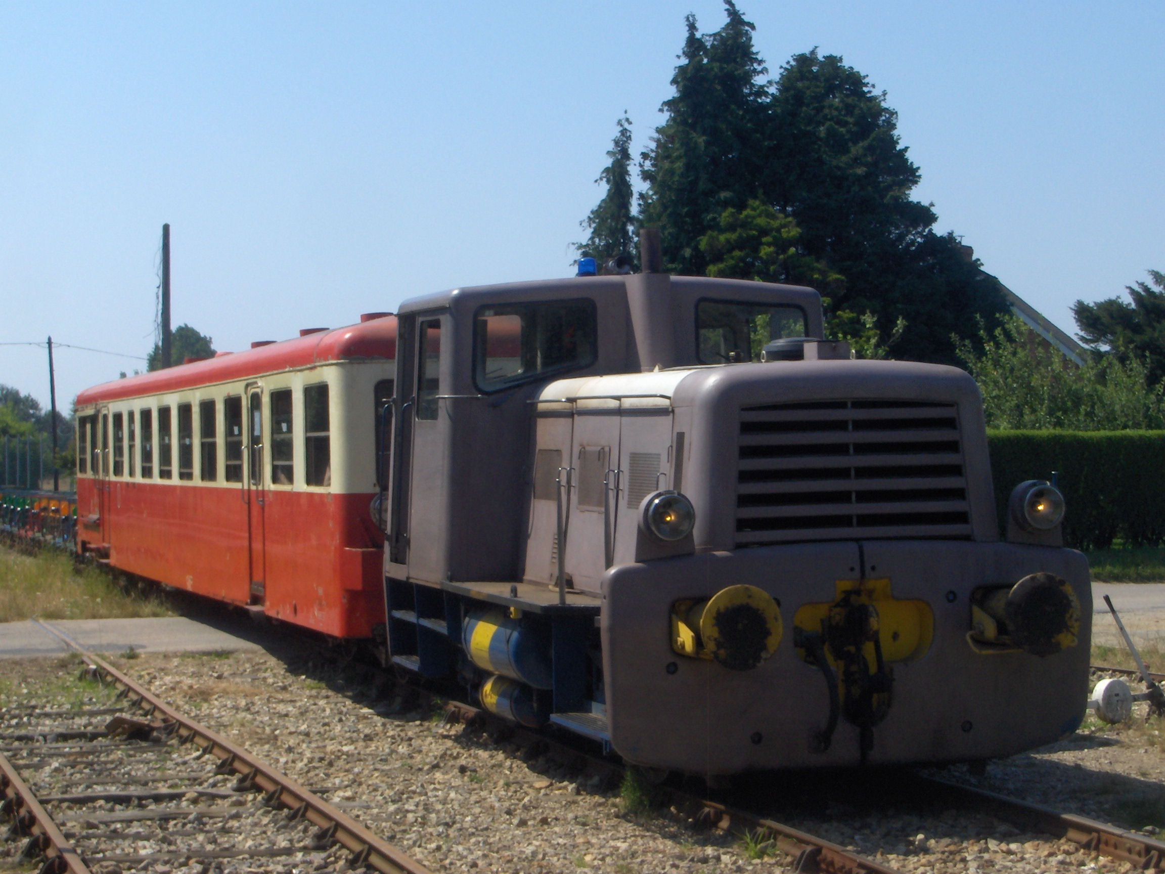 A former Austrian Railways ÖBB 2062 series diesel engine pulling an XR7759 rail car into the gare of Les Loges on the rail line from Tourville-les-Ifs to Étretat, Seine-Maritime, France, in 2012. The Train Touristique Étretat Pays de Caux (TTEPAC) offered a draisine service between Les Loges and Étretat. The return tour (uphill) was made with the train. Note the draisines aft of the XR7759.